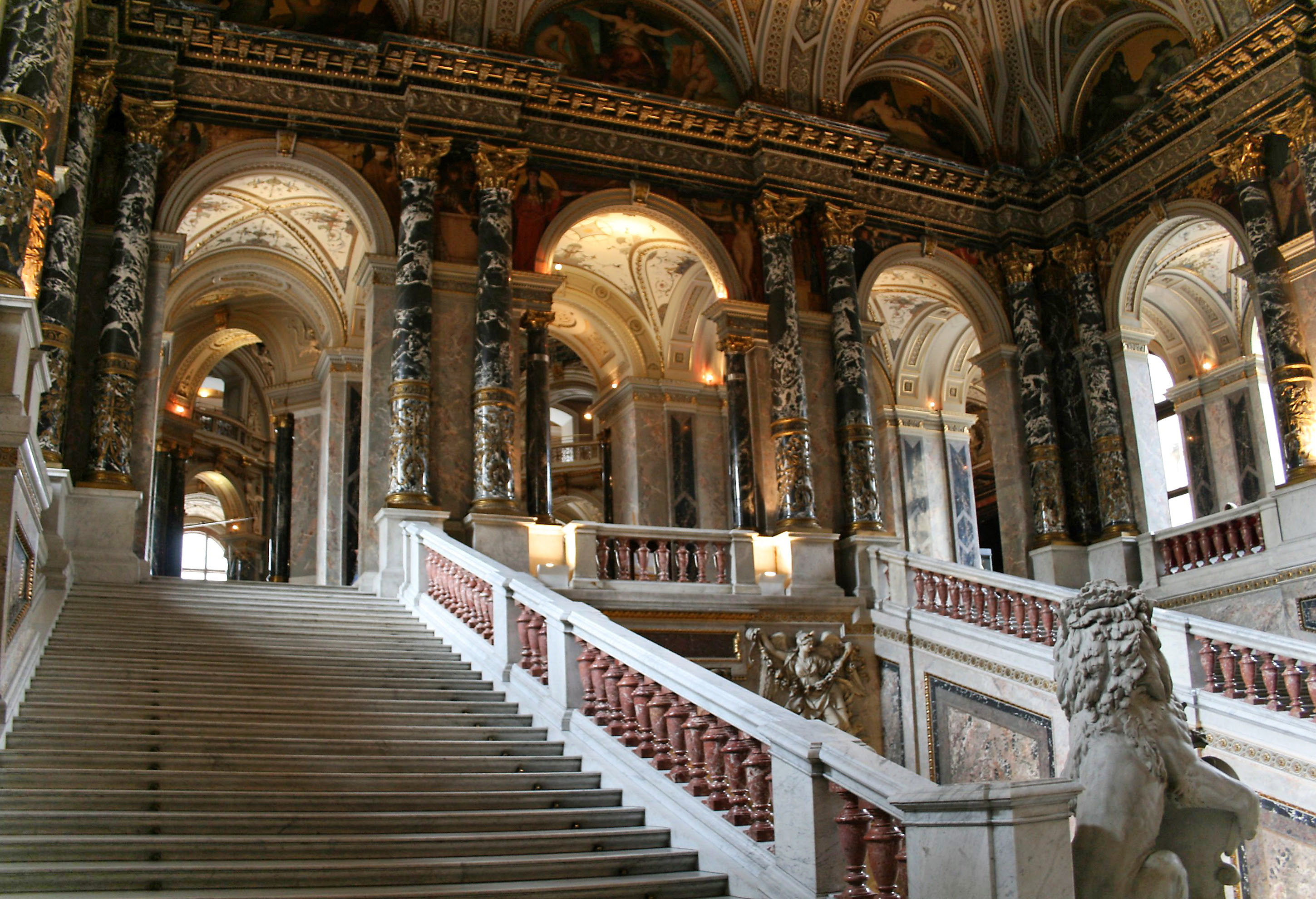 Stairs at the Art History Museum, Vienna, Austria